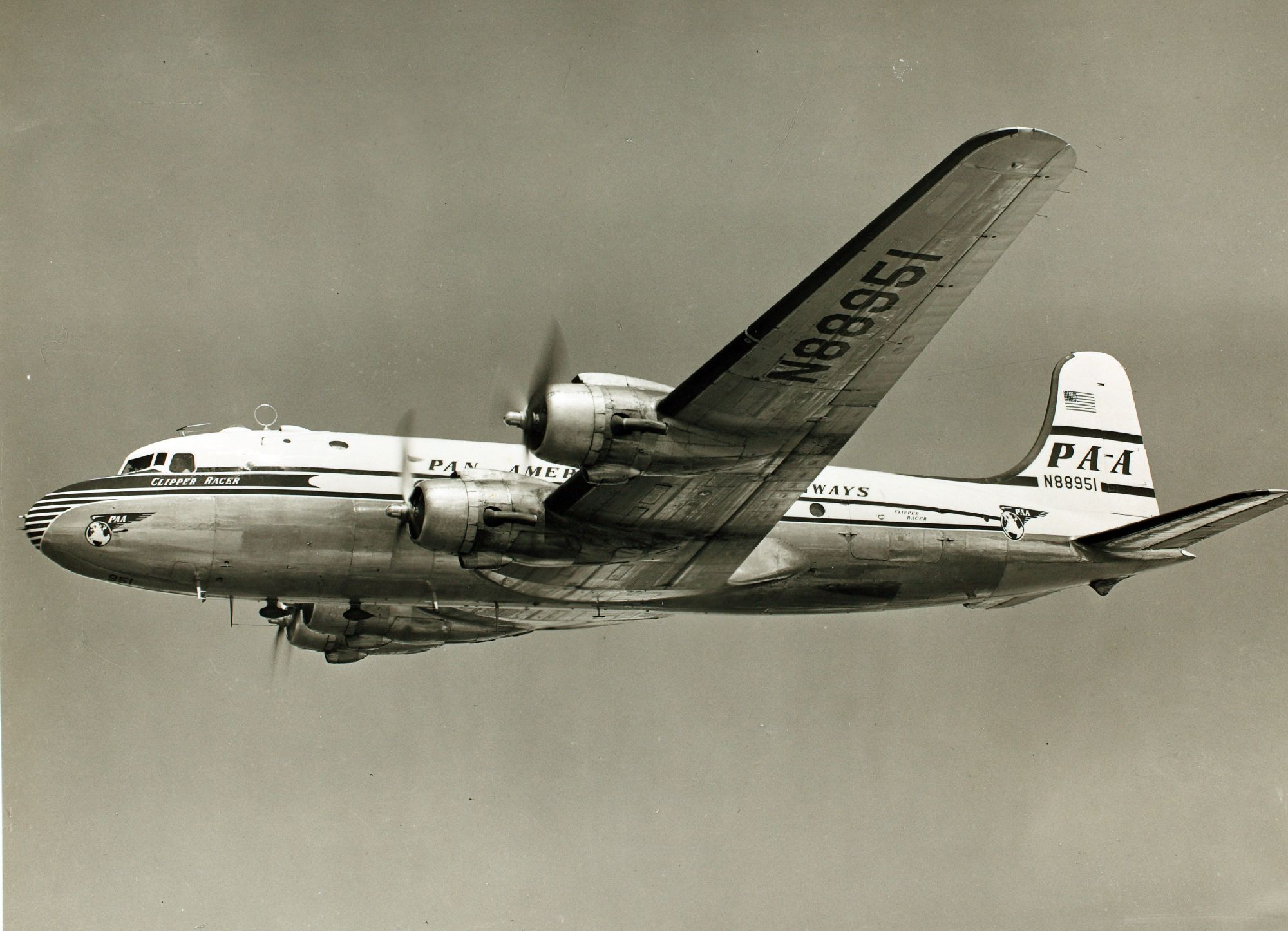 Catalog #: 01_00091389 Title: Douglas, DC-4 Corporation Name: Douglas Aircraft Designation: DC-4 Tags: Douglas, DC-4 Additional Information: USA Repository: San Diego Air and Space Museum Archive